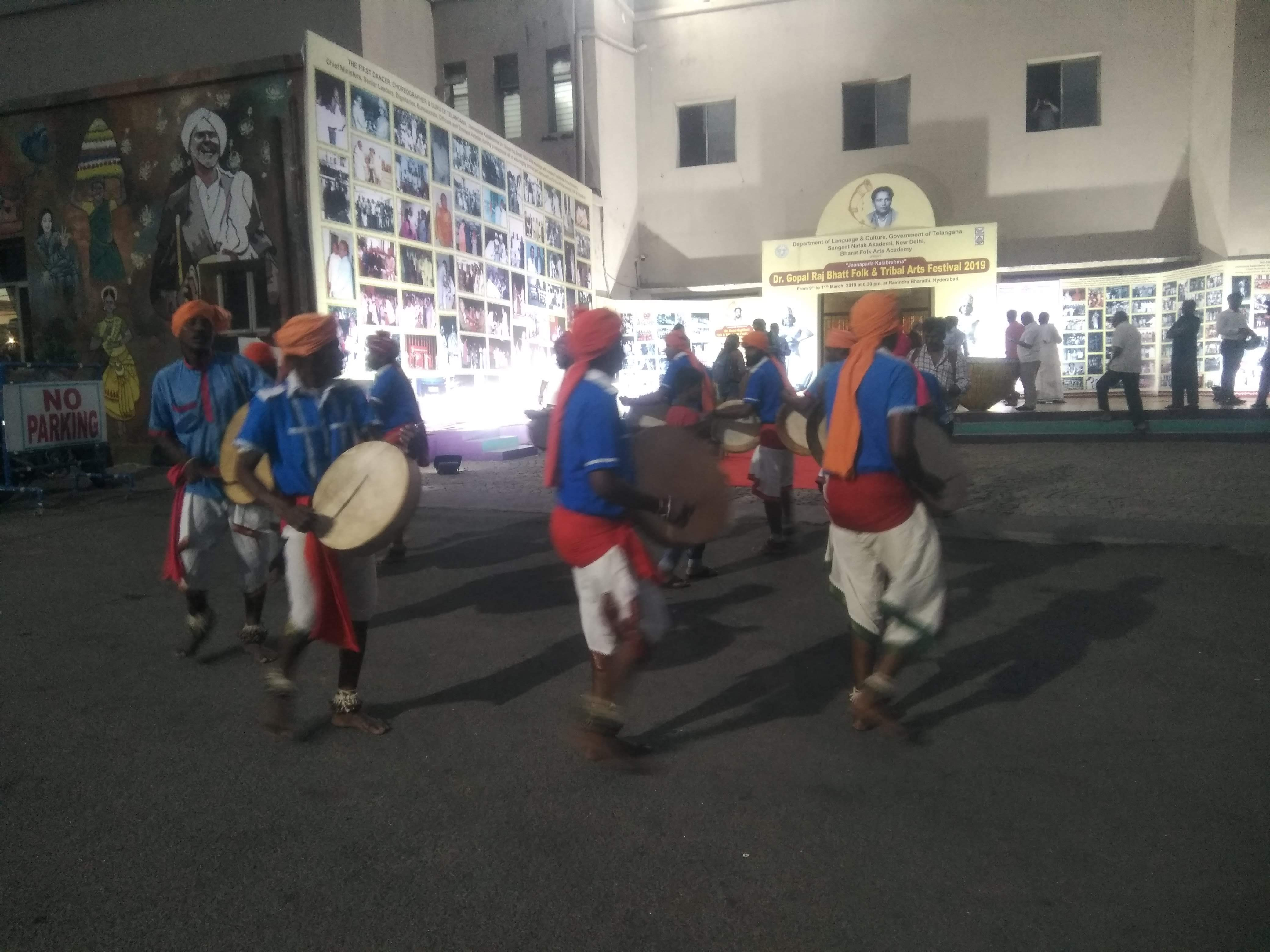 Dappu Kalakarulu,Ravindra Bharathi, Hyderabad